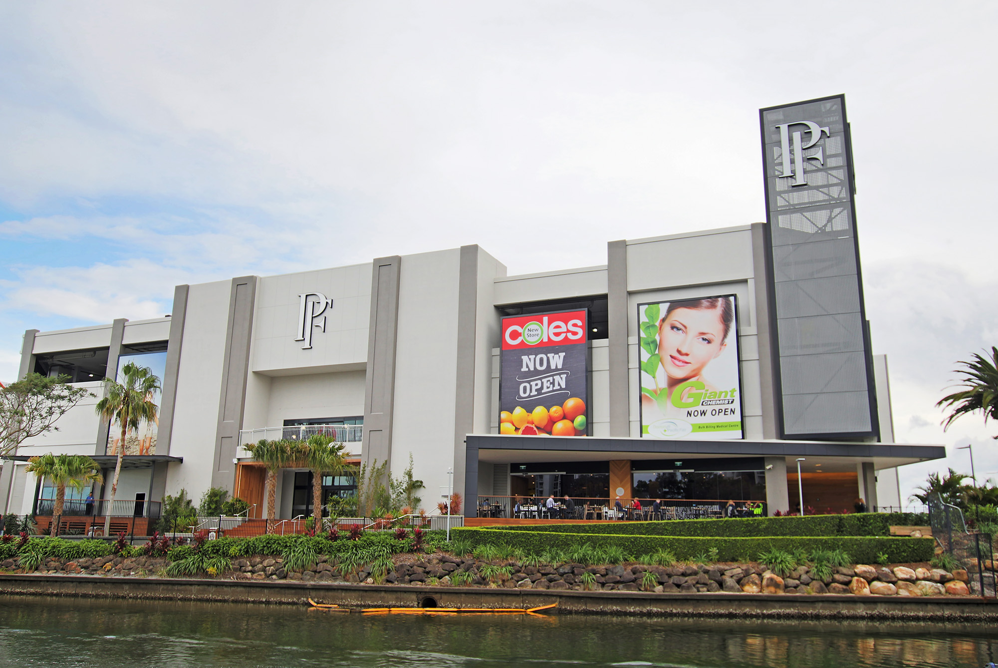 Pacific Fair Shopping Centre, showcasing the new north-east mall at the completion of stage one of the centre's redevelopment